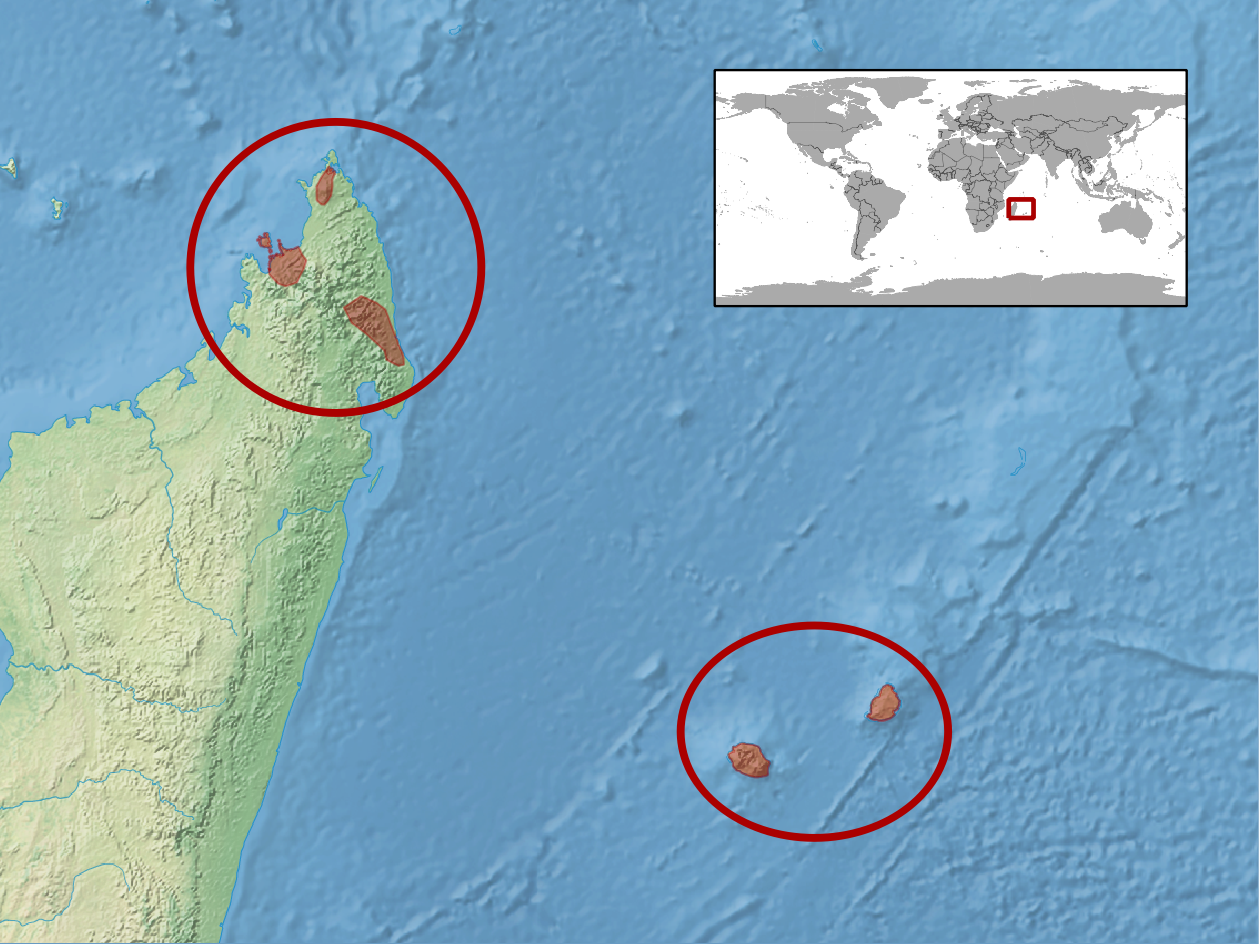 geographic distribution of Phelsuma grandis syn. Phelsuma madagascariensis grandis (Native: Madagascar / Introduced: Afghanistan; Mauritius (Mauritius (main island)); Réunion)